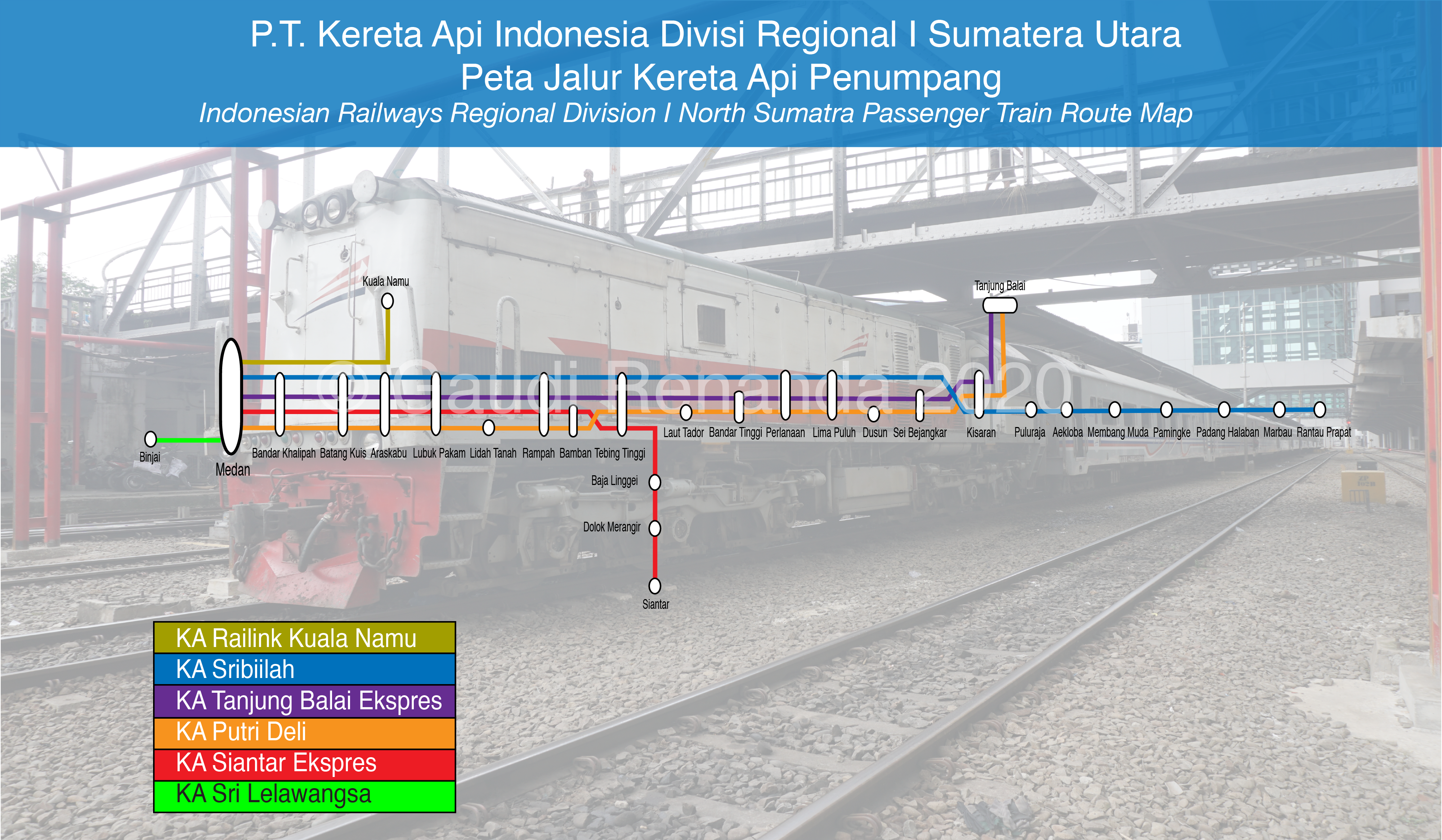 Passenger train map of Indonesian Railways Regional Division 1 North Sumatra